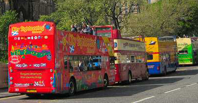 Lothian Buses tour buses pictured Waverley Bridge terminus, Edinburgh. Left to right: the City Sightseeing tour, the Mac Tours tour, the Majestic Tour and the Edinburgh Tour.